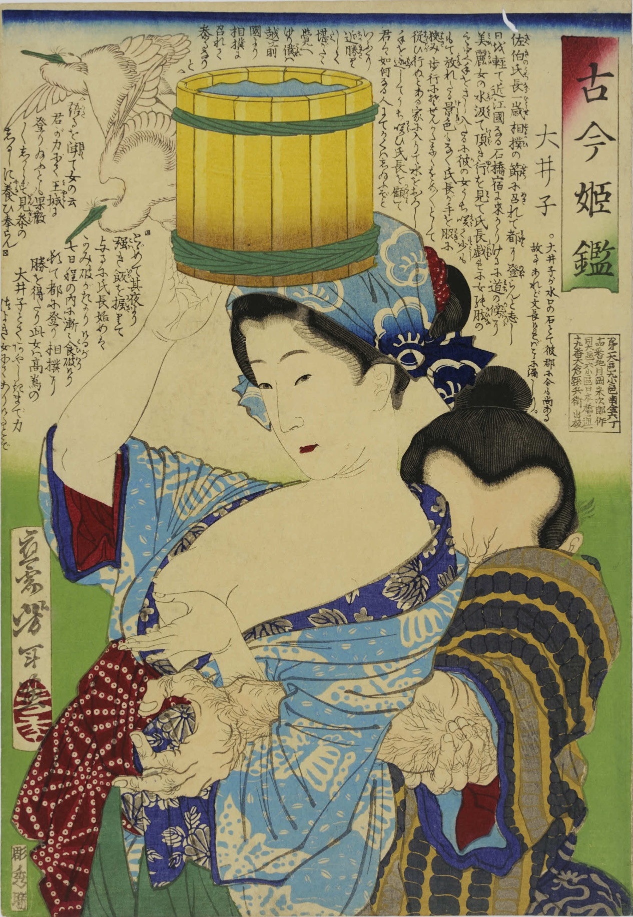 Ōiko, from the series Mirror of Beauties Past and Present.